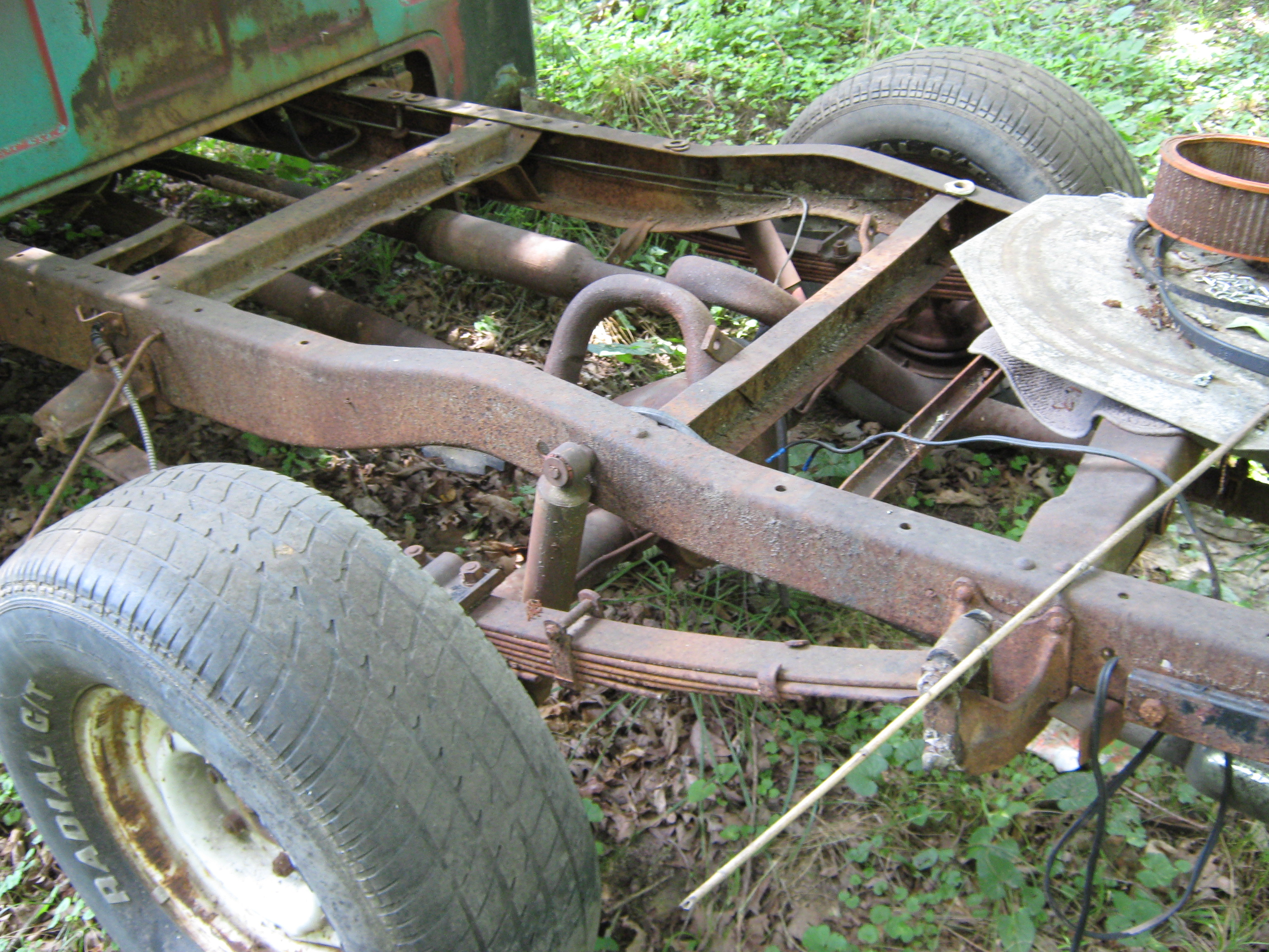 Self 1956 Chevrolet 1/2-ton rear frame.